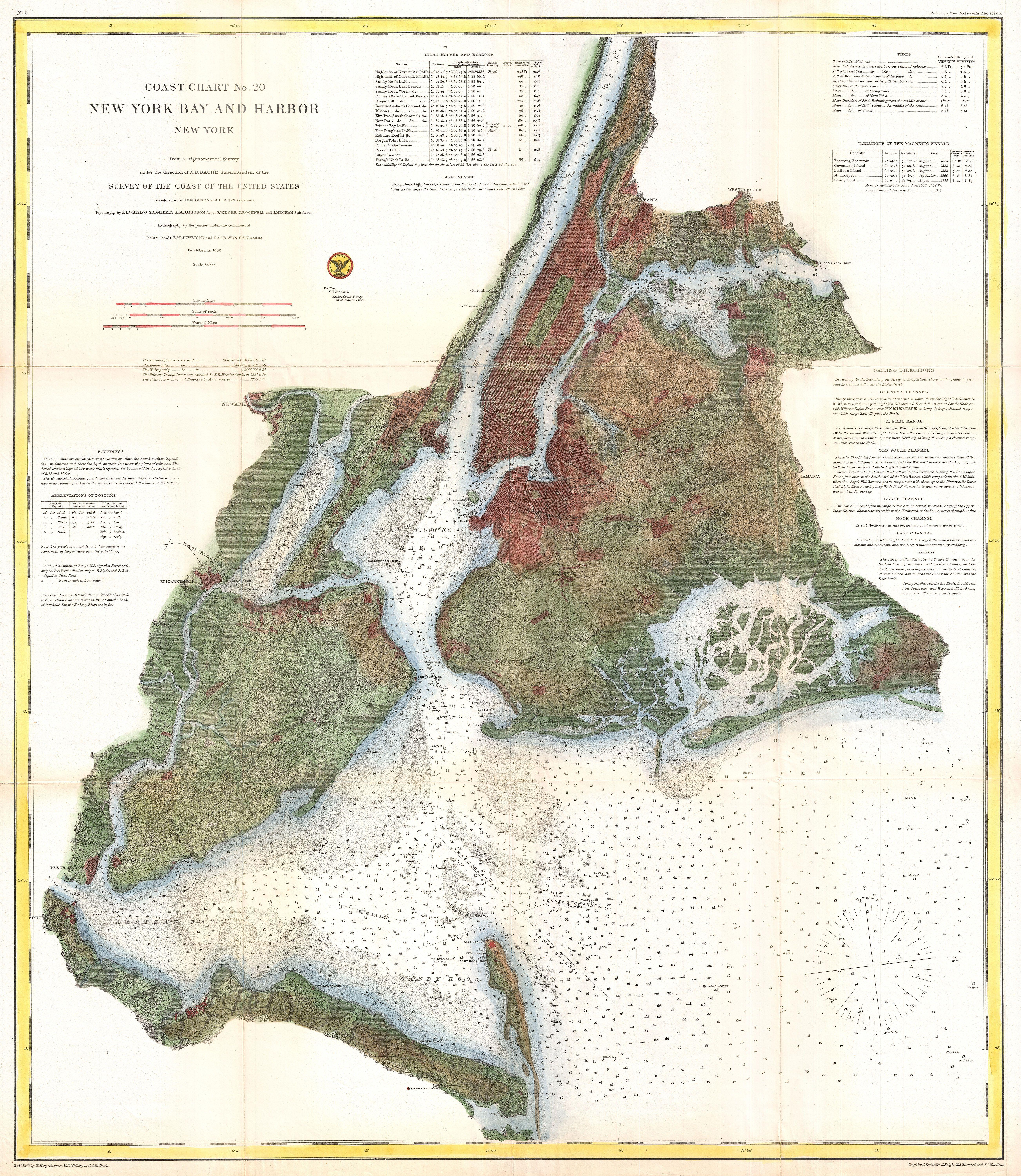 A rare 1866 coastal chart of New York City, it’s harbor, and environs. One of the first 19th century carts to depicts New York City as we know it today, including Manhattan, Queens, Brooklyn, the Bronx and Staten Island. Also includes Jersey City, Newark and Hoboken. This is possibly the most advanced chart in this series with far more detail than previous editions. In addition to inland details, this chart contains a wealth of practical information for the mariner from oceanic depths, to harbors and navigation tips on important channels. Map also includes tables of light houses and beacons, tides and magnetic declination as well as detailed sailing instructions. The triangulation for this chart was prepared by J. Ferguson and E. Blunt. The topography by H. L. Whiting, S. A. Gilbert, A. M Harrison, F. W. Door, C. Rockwell and J. M E. Chan. The hydrography was accomplished by R. Wainwright and T. A. Craven. The entire production was supervised by A. D. Bache, Superintendent of the Survey of the Coast of the United States and one of the most influential American cartographers of the 19th century.